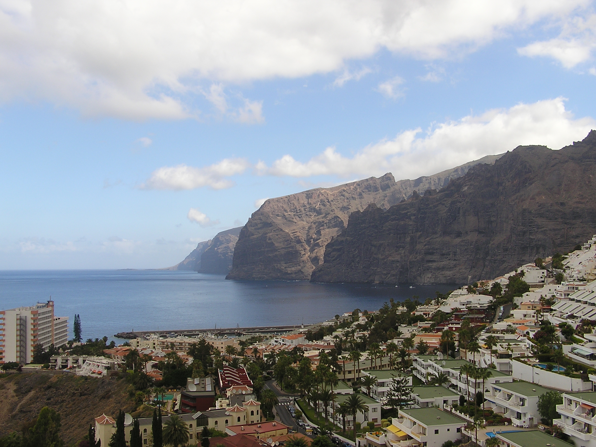 Cliffs Los Gigantes, Tenerife, Spain Útesy Los Gigantes, Tenerife, Španielsko